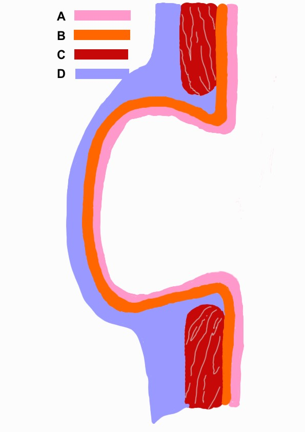 A - Tunica mucosa; B - Tela submucosa; C - Tela muscularis; D - Tunica serosa et subserosa